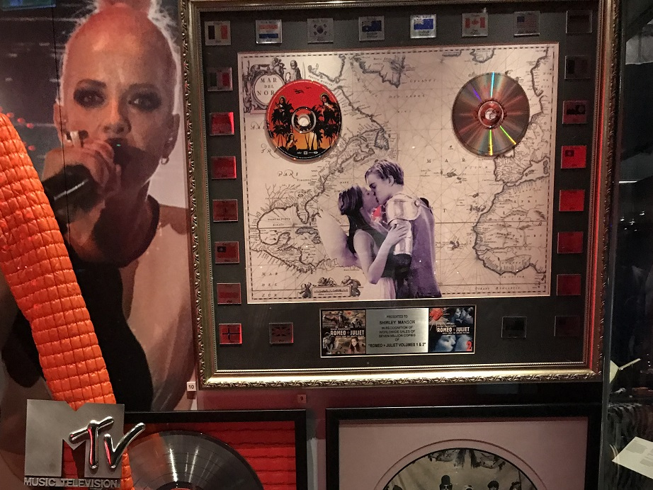 Shirley Manson's platinum plaque certifying seven million worldwide sales for the Romeo + Juliet soundtracks. Taken at Rip It Up: The Story of Scottish Pop exhibition at the National Museum of Scotland on September 14th, 2018